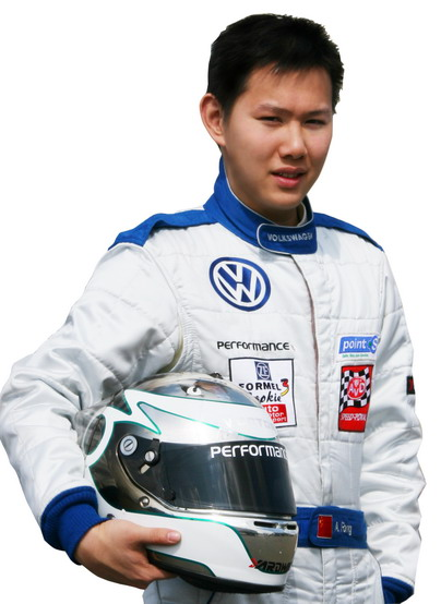 HK formula racer Adderly Fong 2009 powered by VW